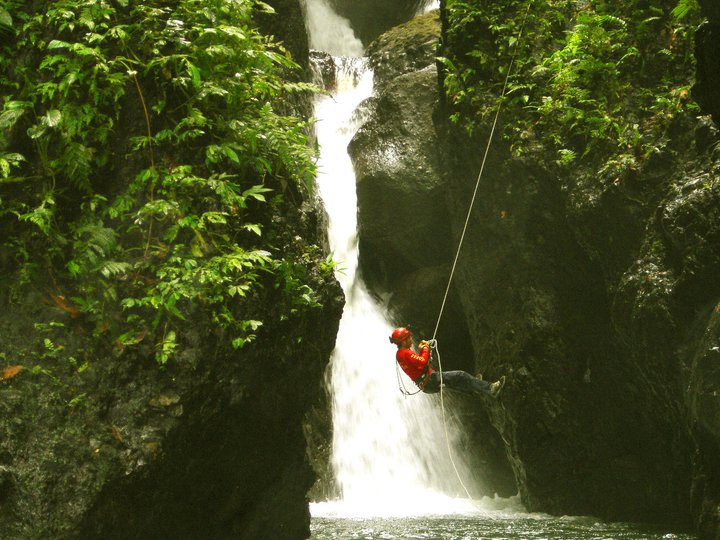 Uwan-uwanan Waterfalls